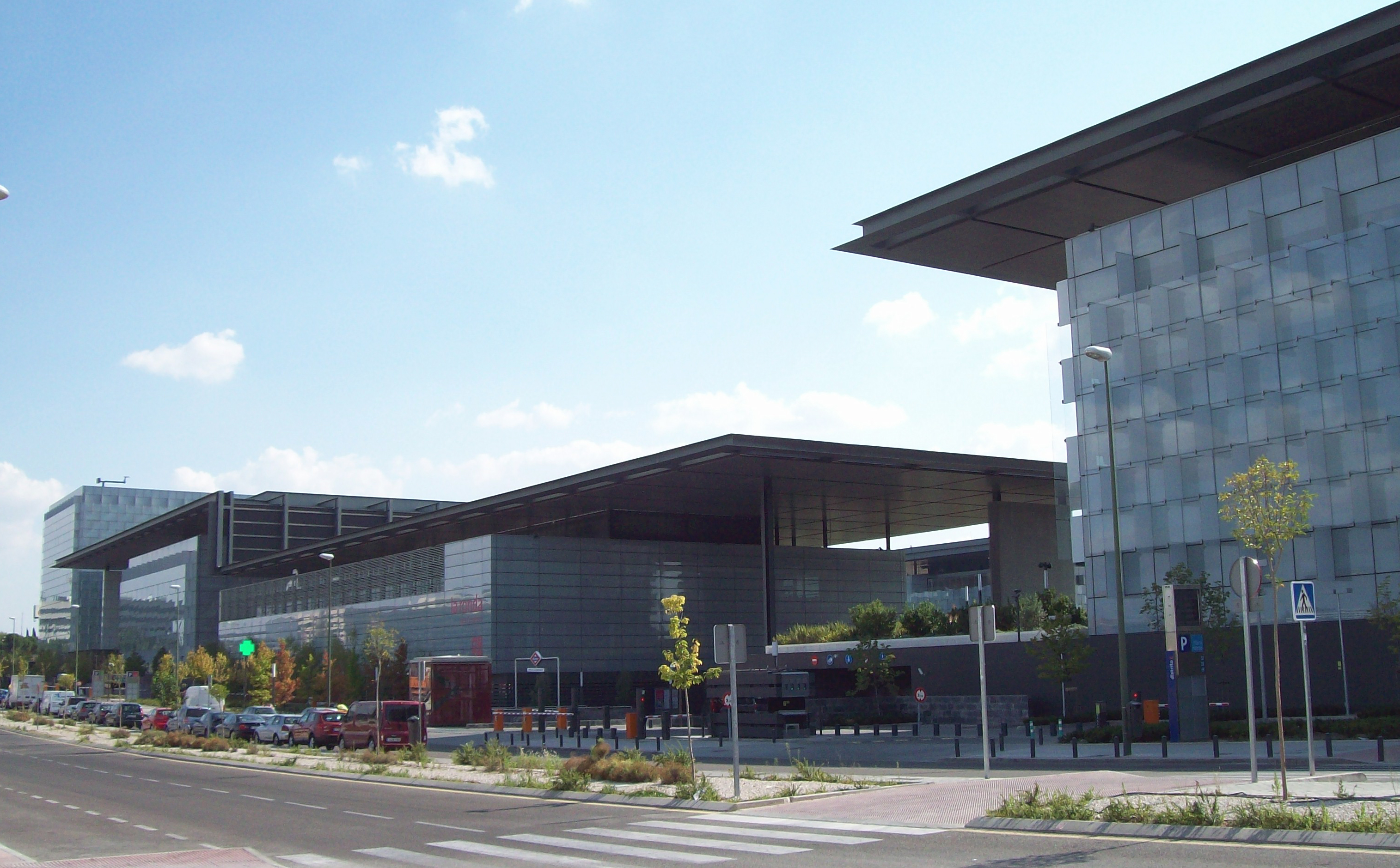 View of Distrito Telefónica in Madrid (Spain).